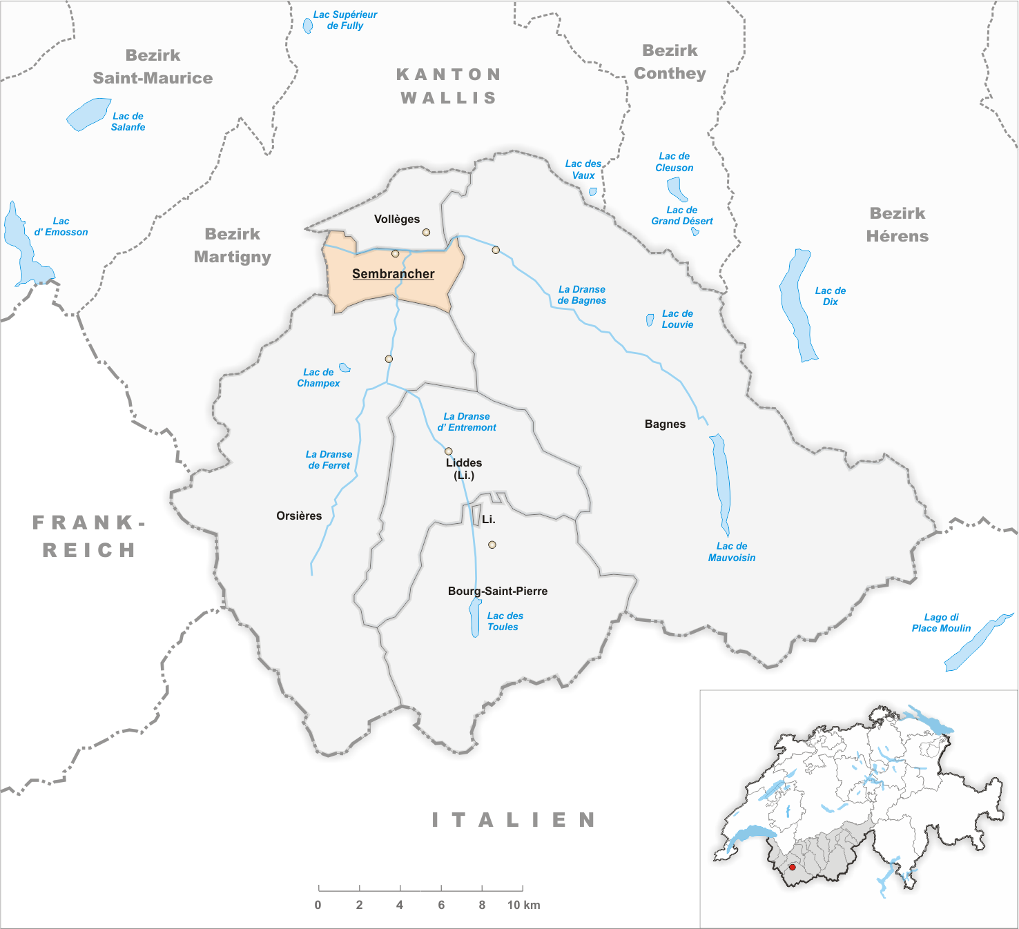 Municipality Sembrancher